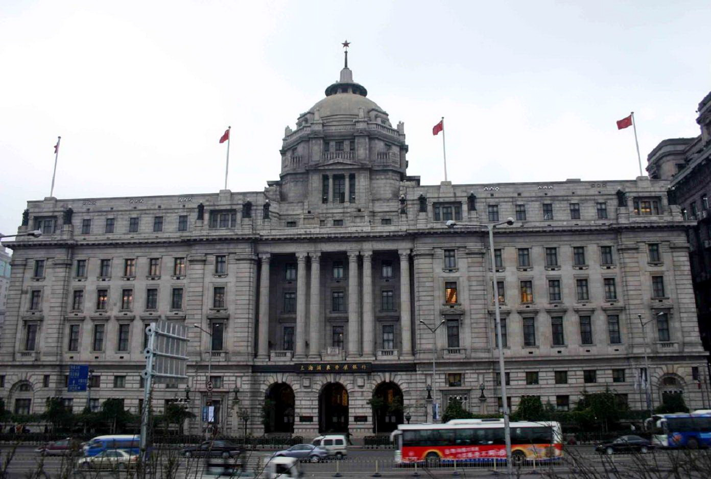 Self-made Summary HSBC Building, the Bund, Shanghai